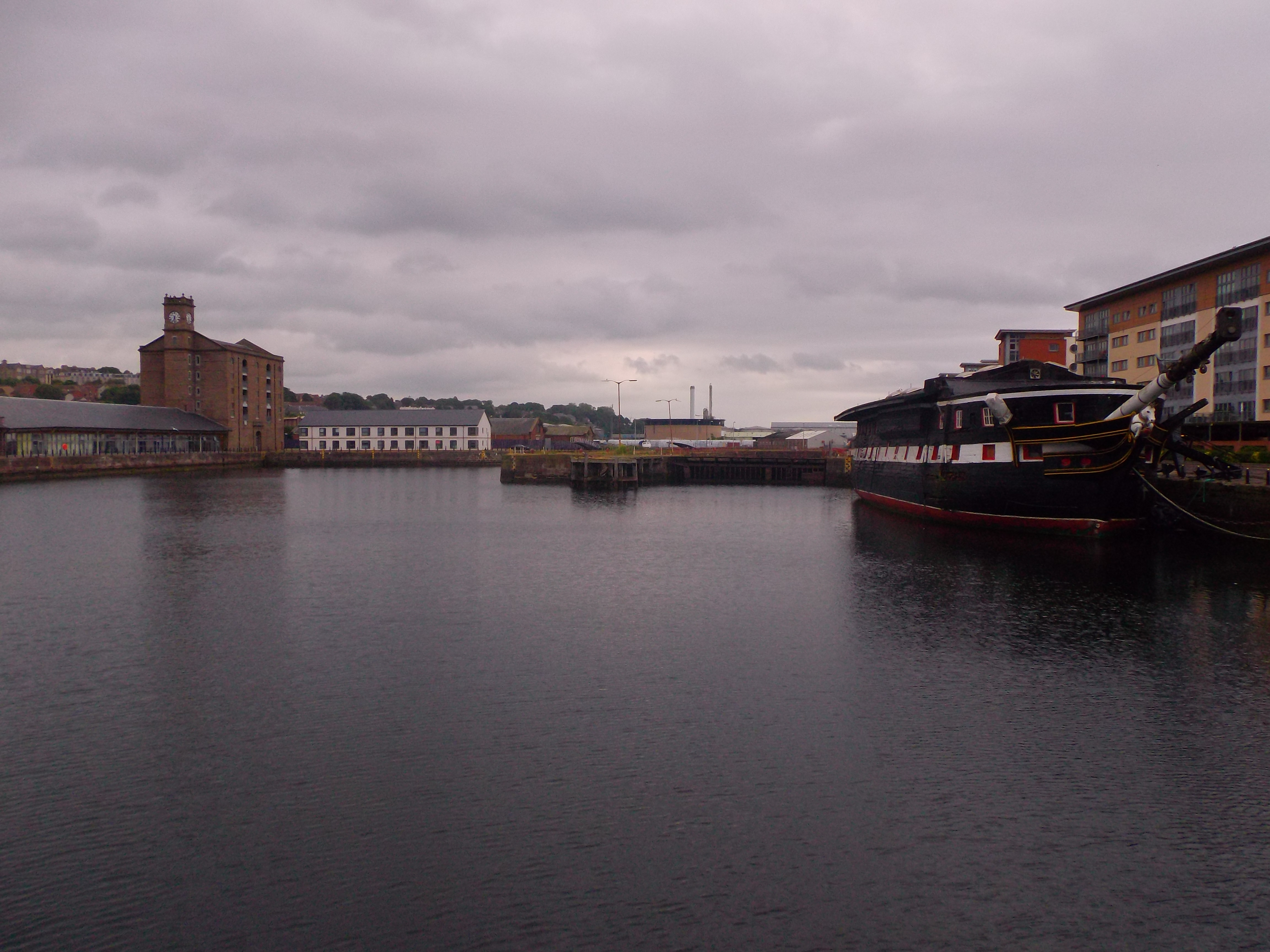 View NE from footbridge over Victoria Dock, Dundee